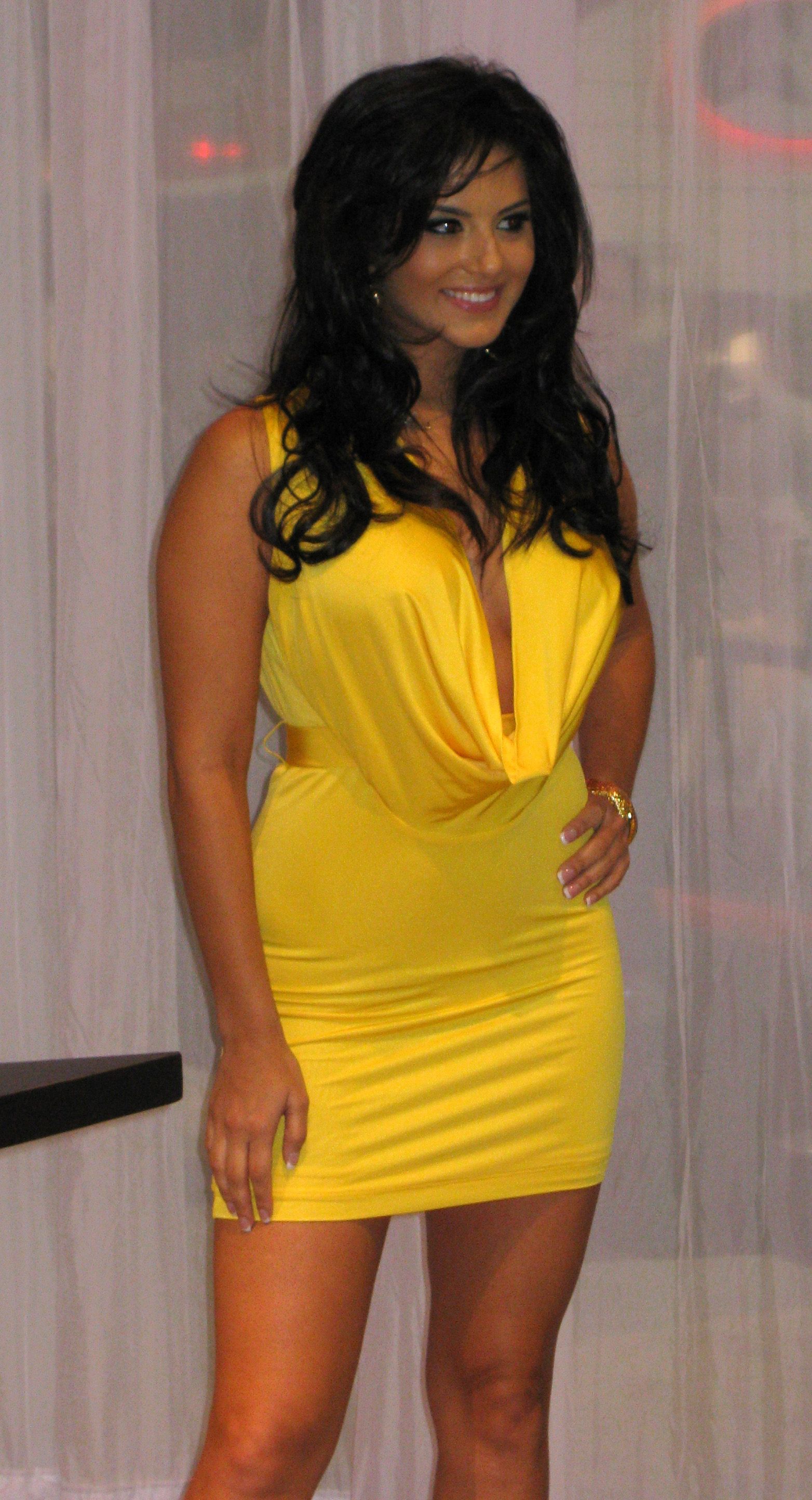 Sunny Leone at the 2008 Adult Entertainment Expo